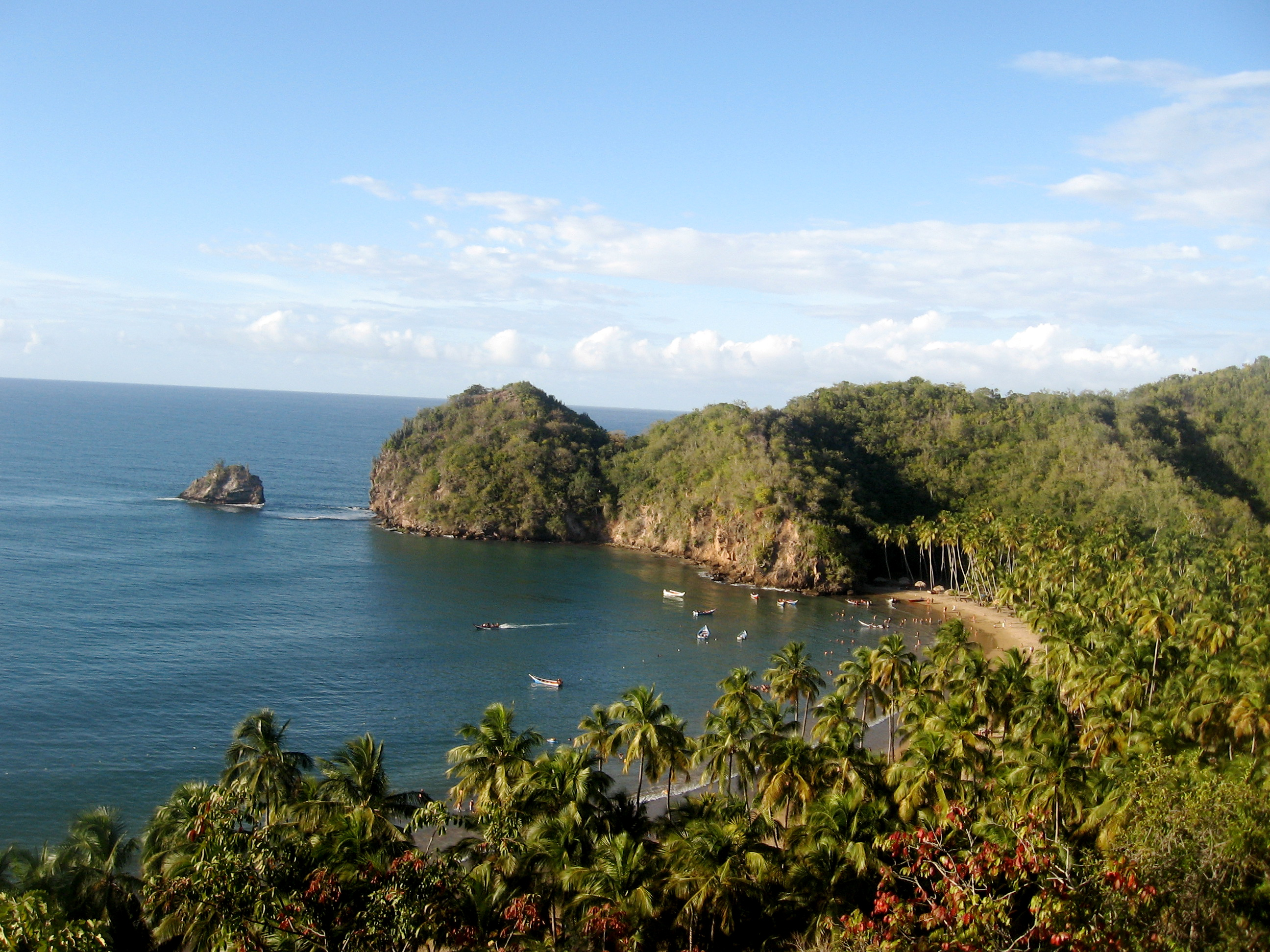 Medina beach, Sucre State, Venezuela.